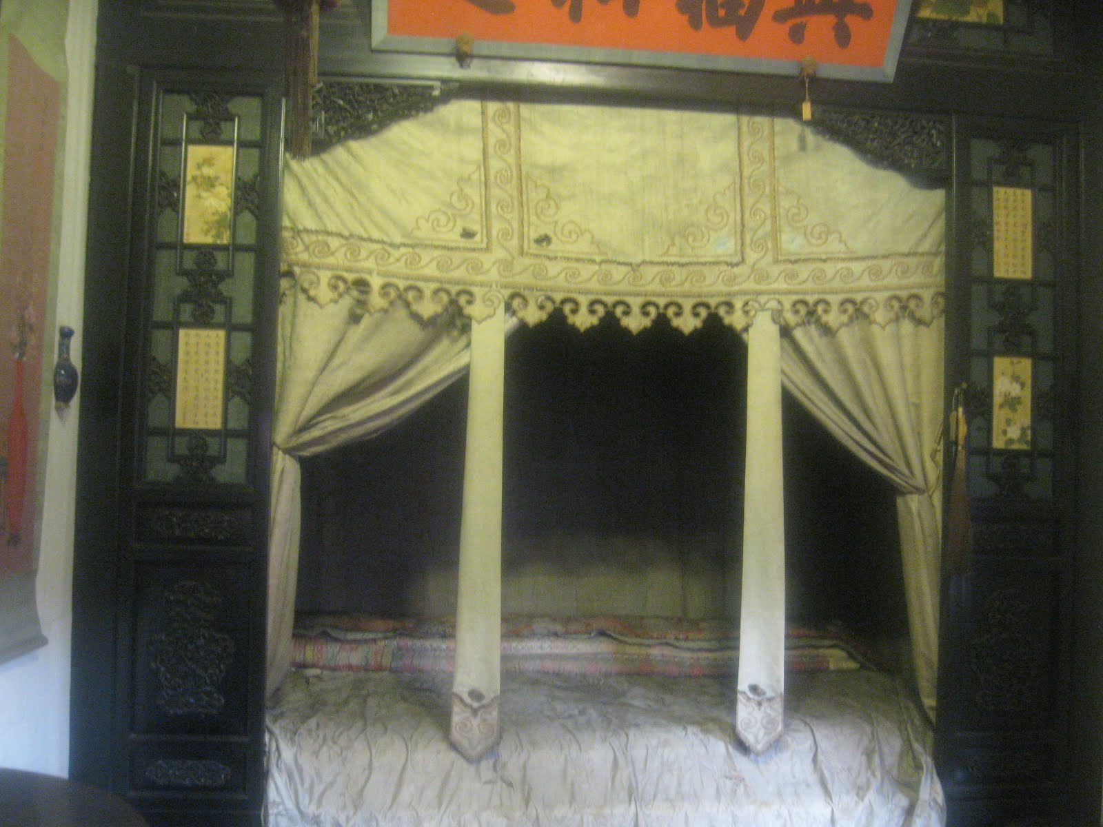 Forbidden City